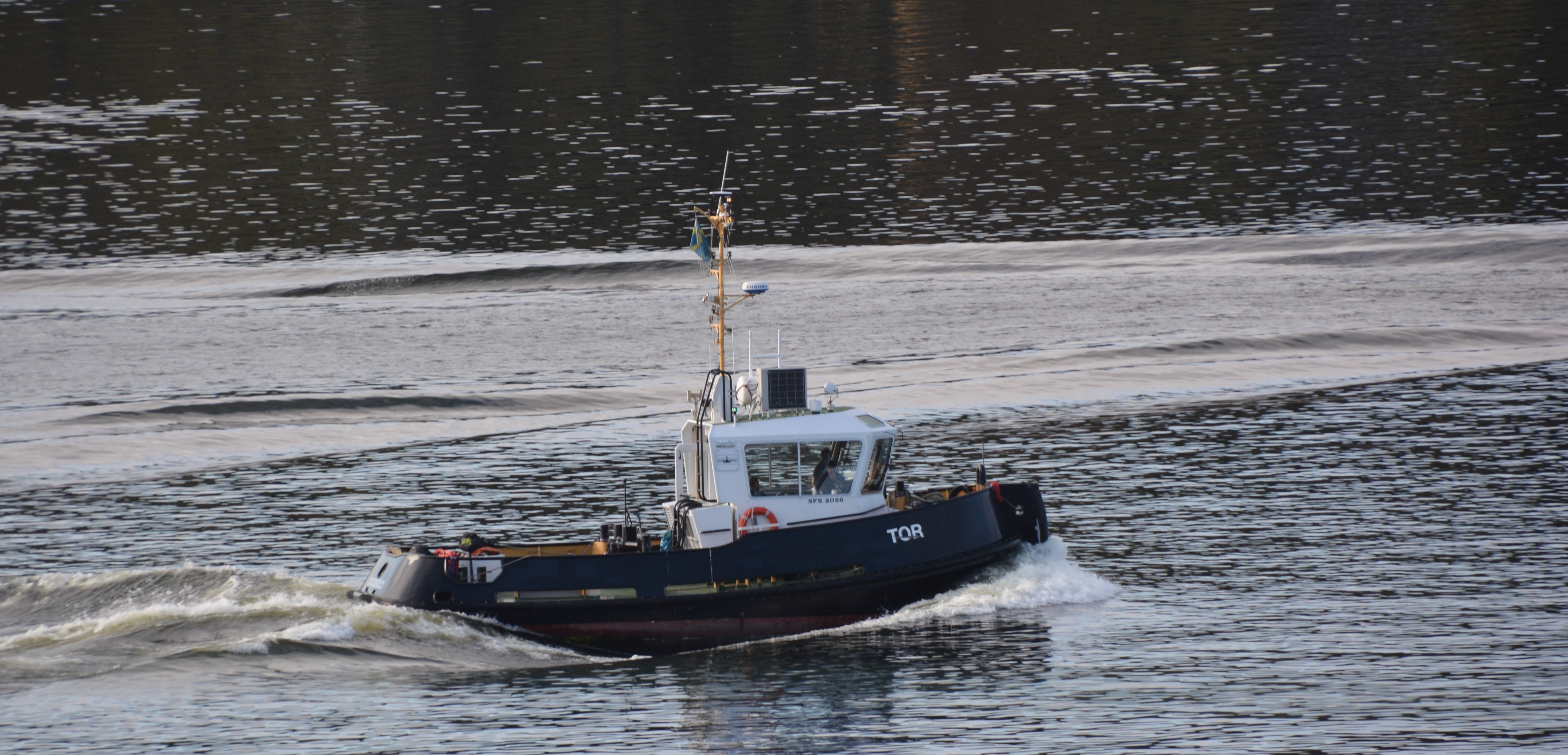 Tugboat Tor, built 2017 by Damen Shipyards, at Lake Mälaren, Stockholm